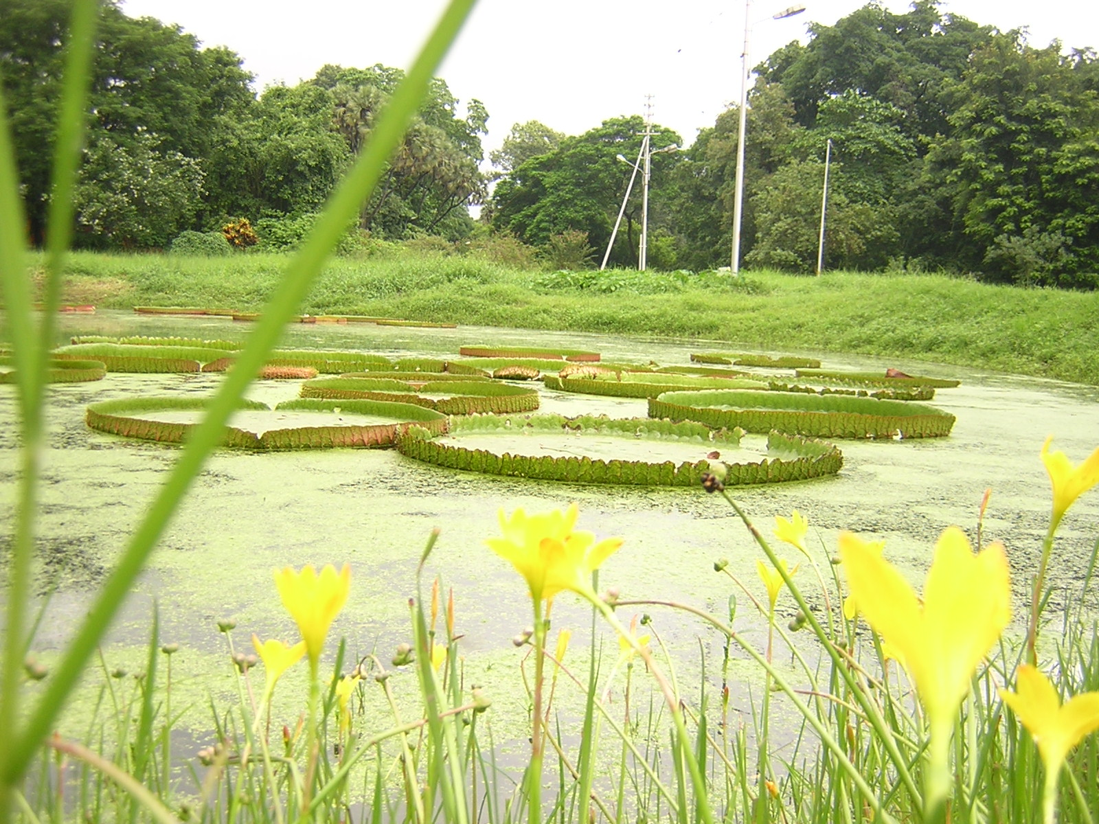 water lilies.